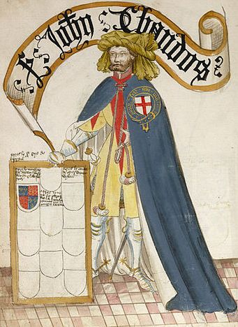 Sir John Chandos and Sir Otes Holland in the Garter Book, full-length portraits of two members of the Order of the Garter, on paper, likely commissioned by William Bruges. Dated 1435. Courtesy of the British Library, London.